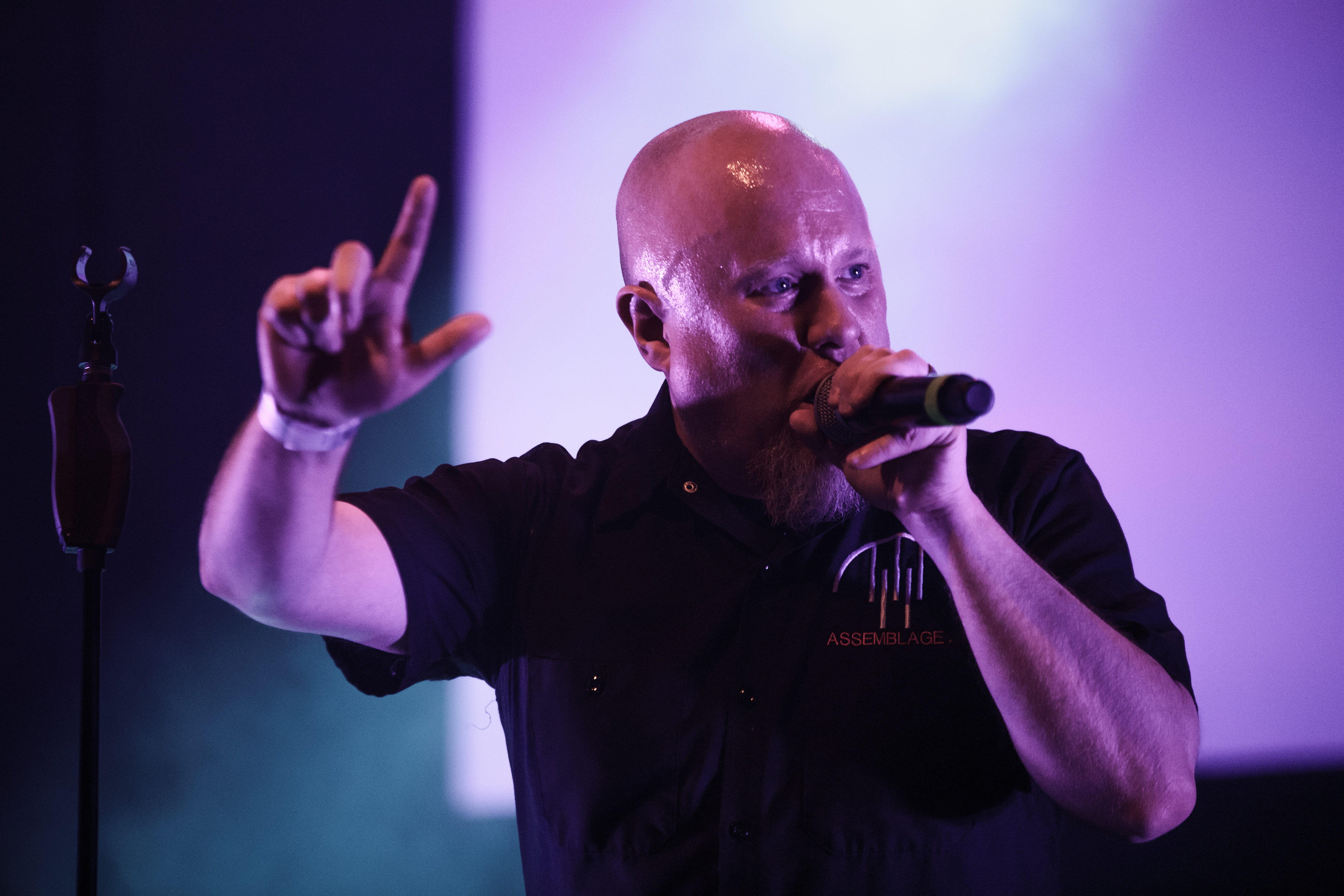 Assemblage 23, E-Tropolis Festival 2016, Oberhausen Turbinenhalle Festivalsommer This photo was created with the support of donations to Wikimedia Deutschland in the context of the CPB project "Festival Summer".